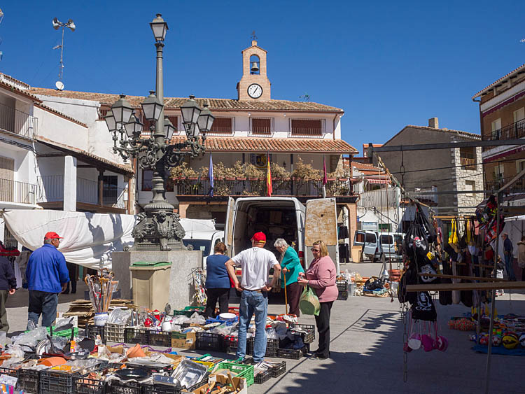 Ayuntamiento.